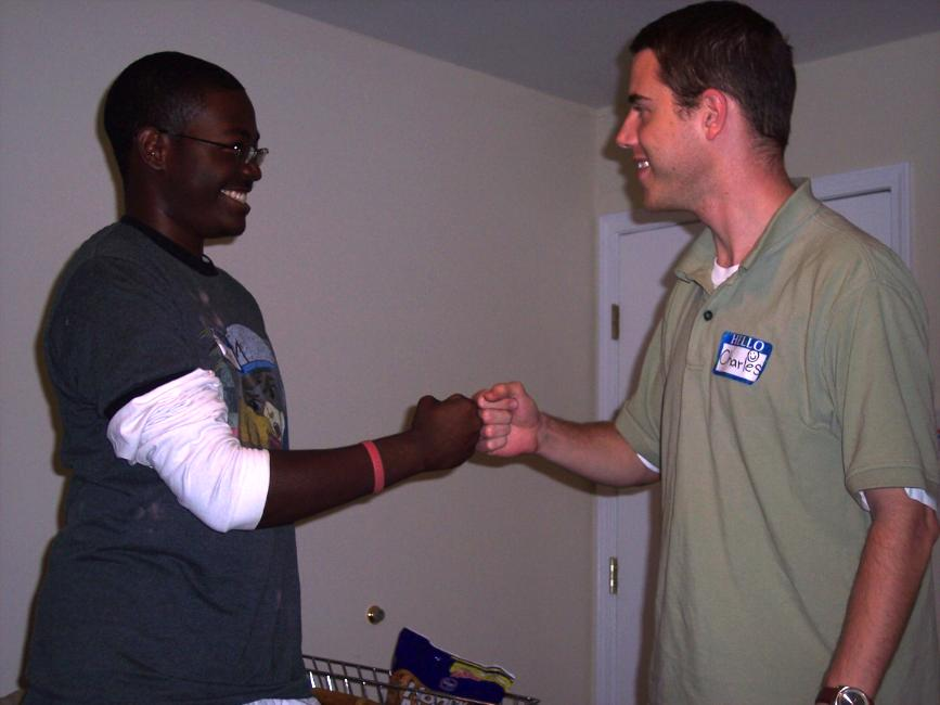 Fist bump.